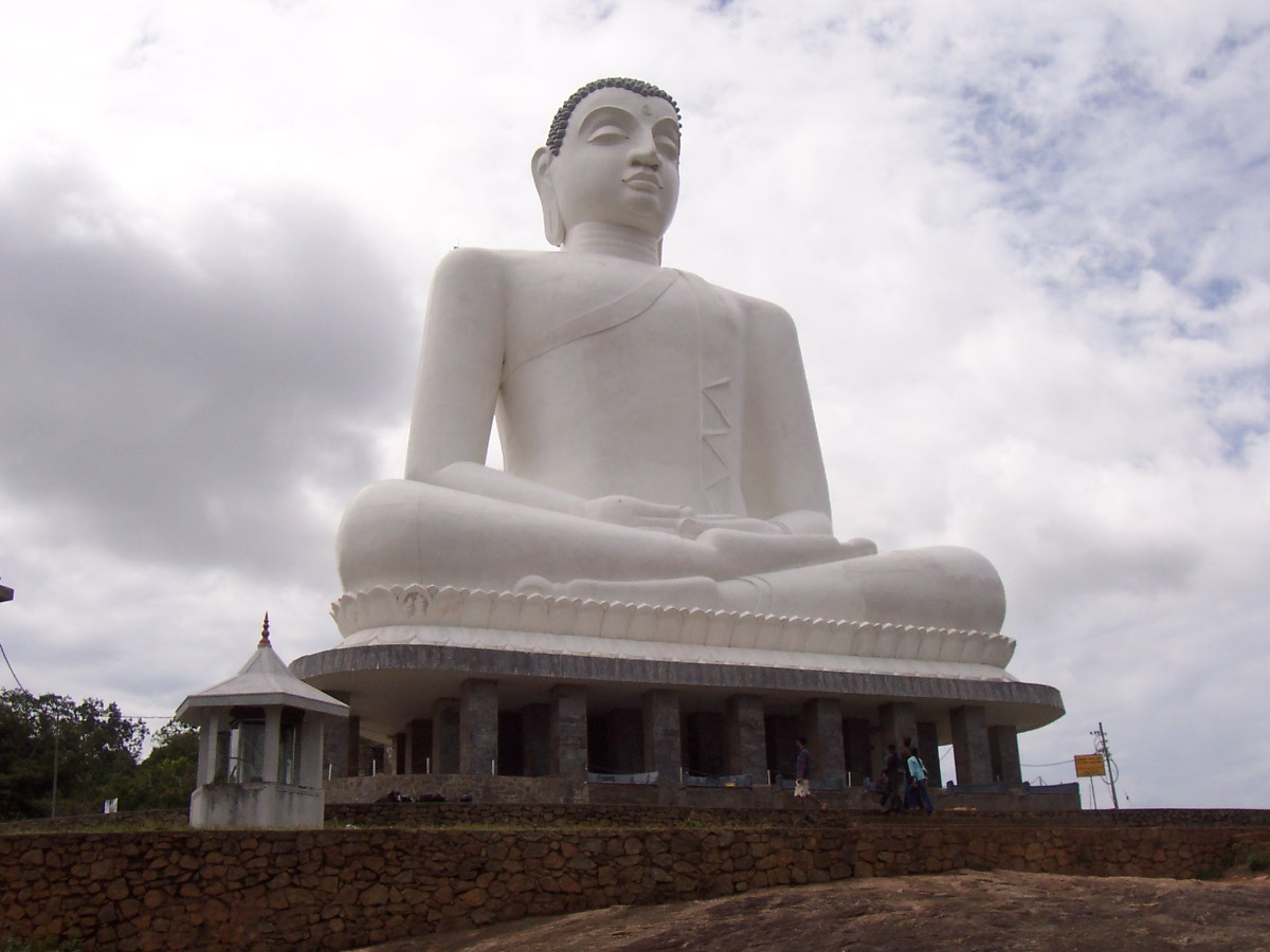 Giant Buddha Statue at Elephant Rock, Kurunegala, Sri Lanka